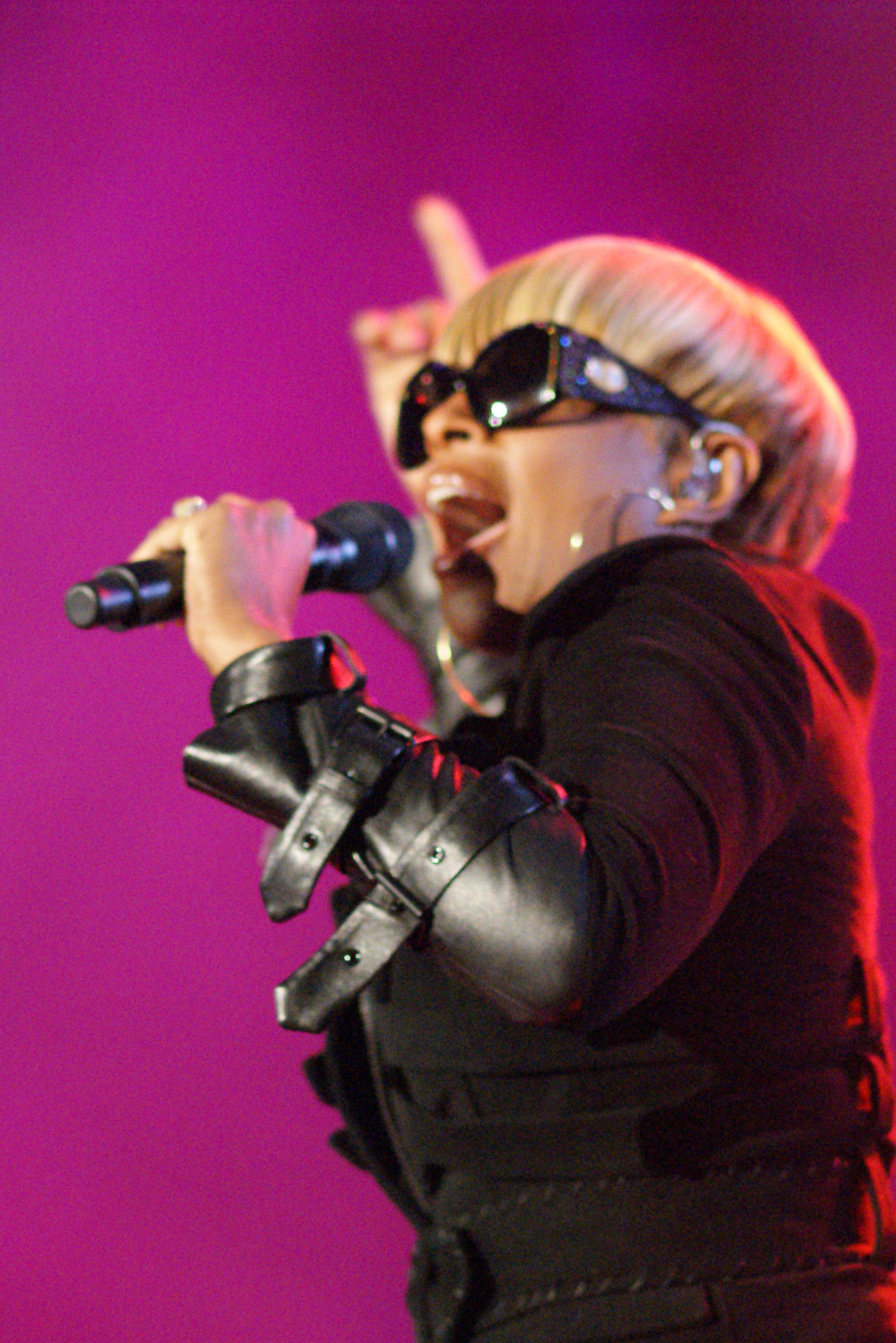 MJB